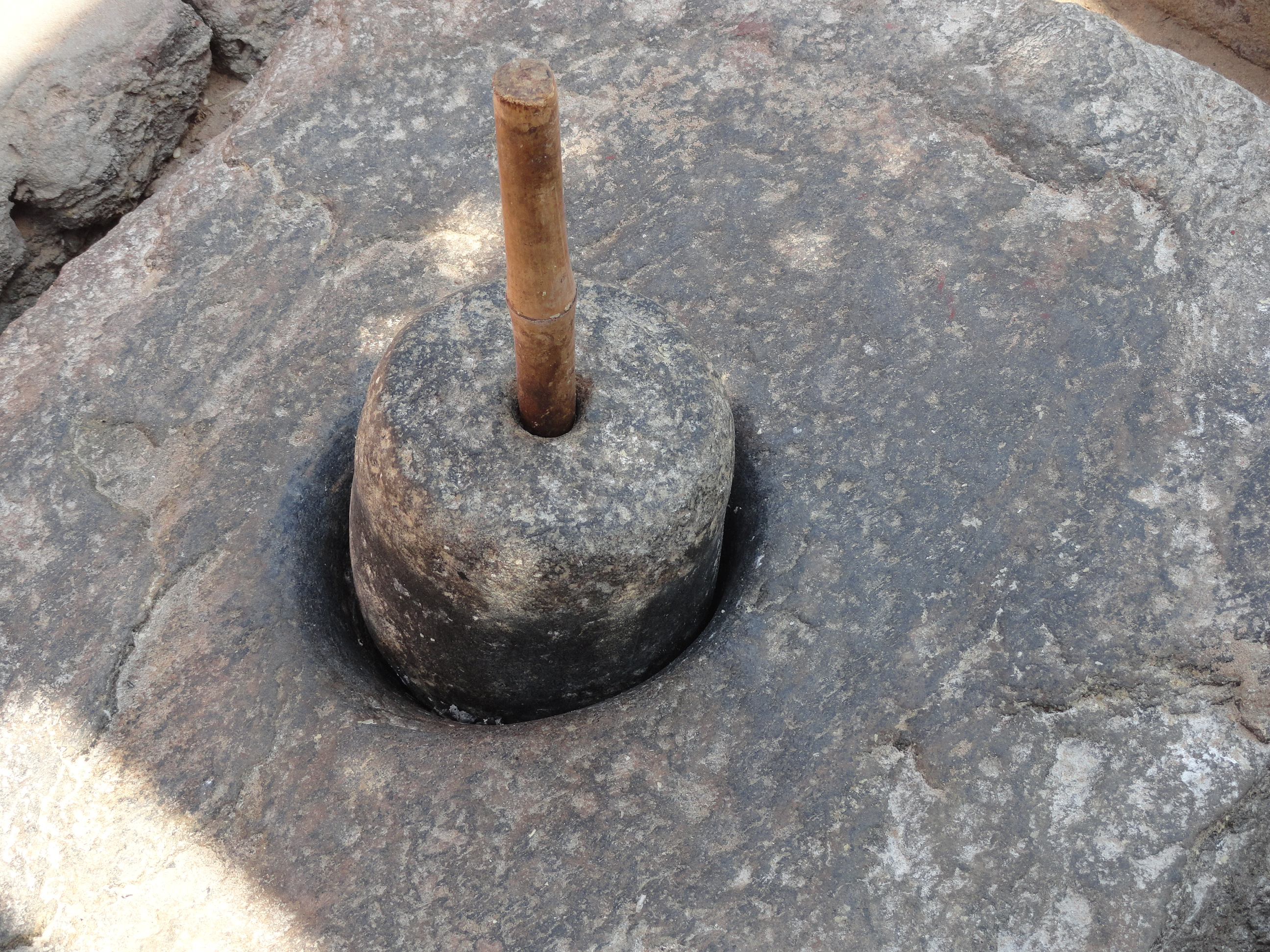 Rubbu rOlu: (local name) a stone instrument works as wet grinder. picture taken at Bapatla.